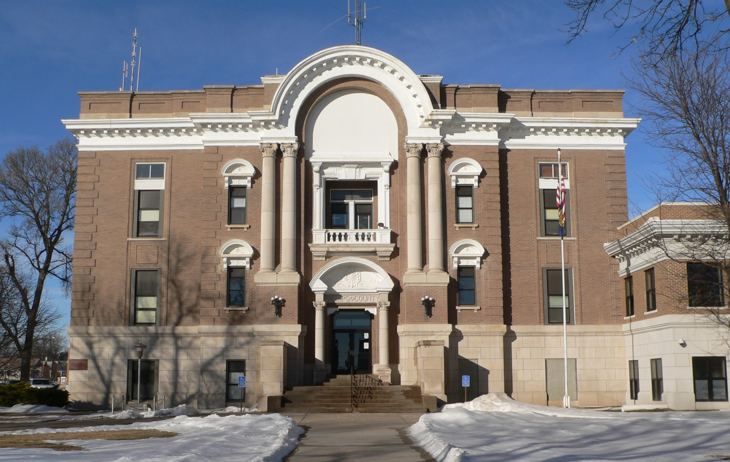 Phelps County Courthouse in Holdrege, Nebraska; seen from the south. The building was designed in Beaux-Arts style by architect William F. Gernandt; its cornerstone was laid in 1910. It is listed in the National Register of Historic Places. The two-story portion at right is a relatively recent addition.